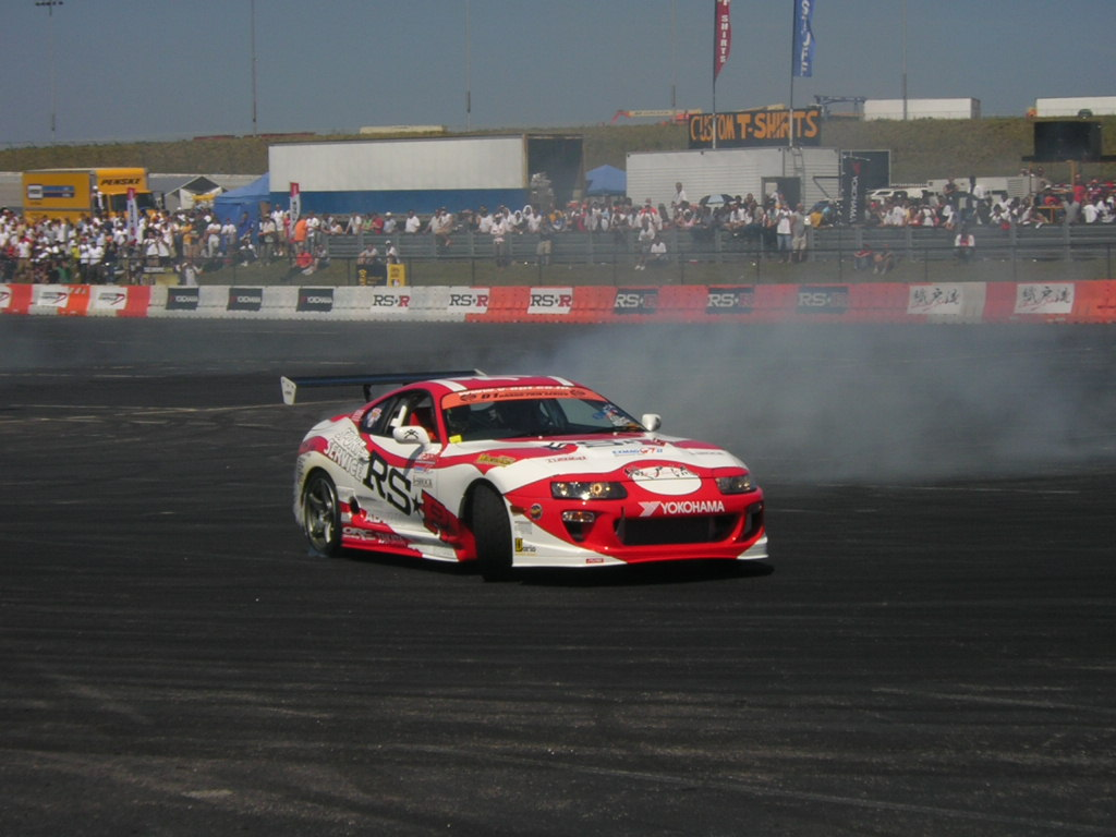 A Toyota Supra twin turbo RZ drifting at NOPI Nationals 2005 driven by RS*R driver Manabu/MAX Orido.